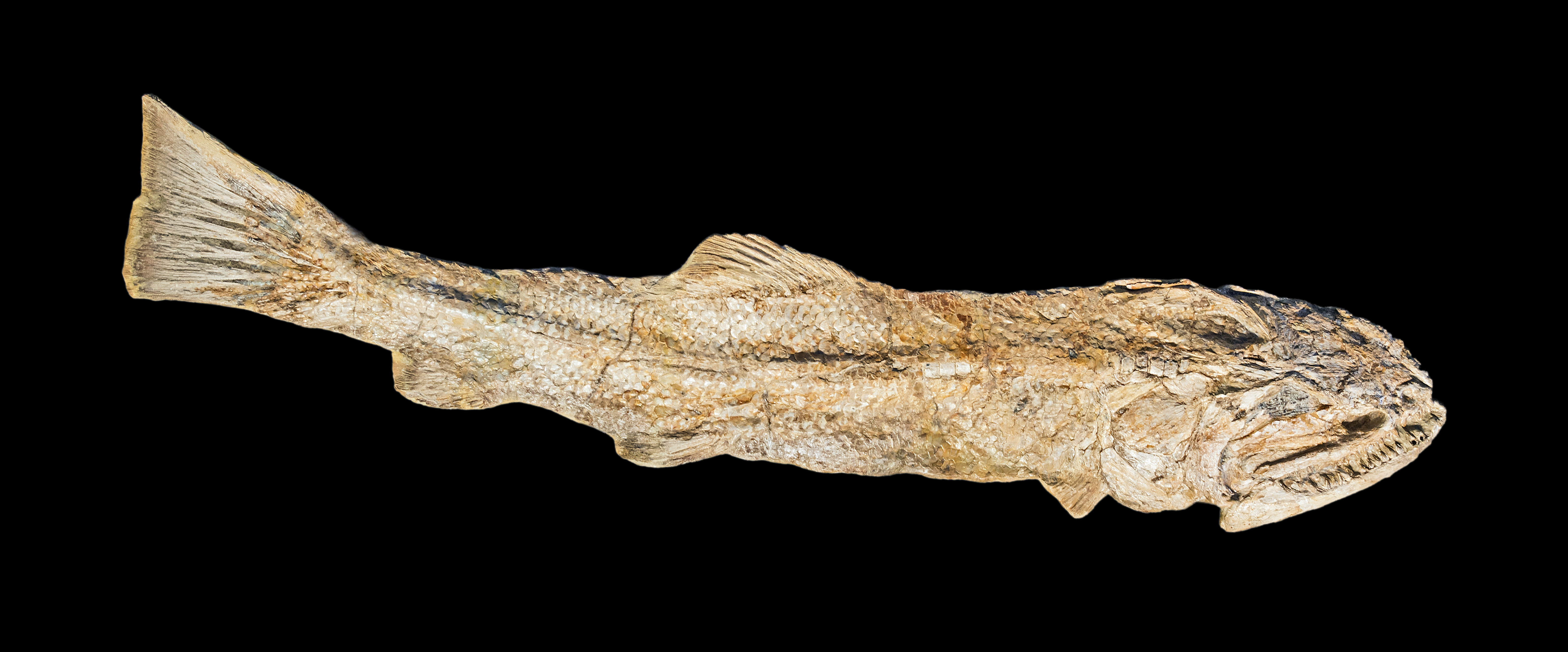 Calamopleurus cylindricus Size : 139x26.2x9.2 cm 18.6Kg Stage : Early Cretaceous 146 Ma to 100 Ma. (million years ago).